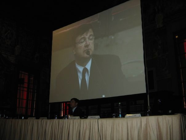 paolo zamboni, bologna 08.09.2009